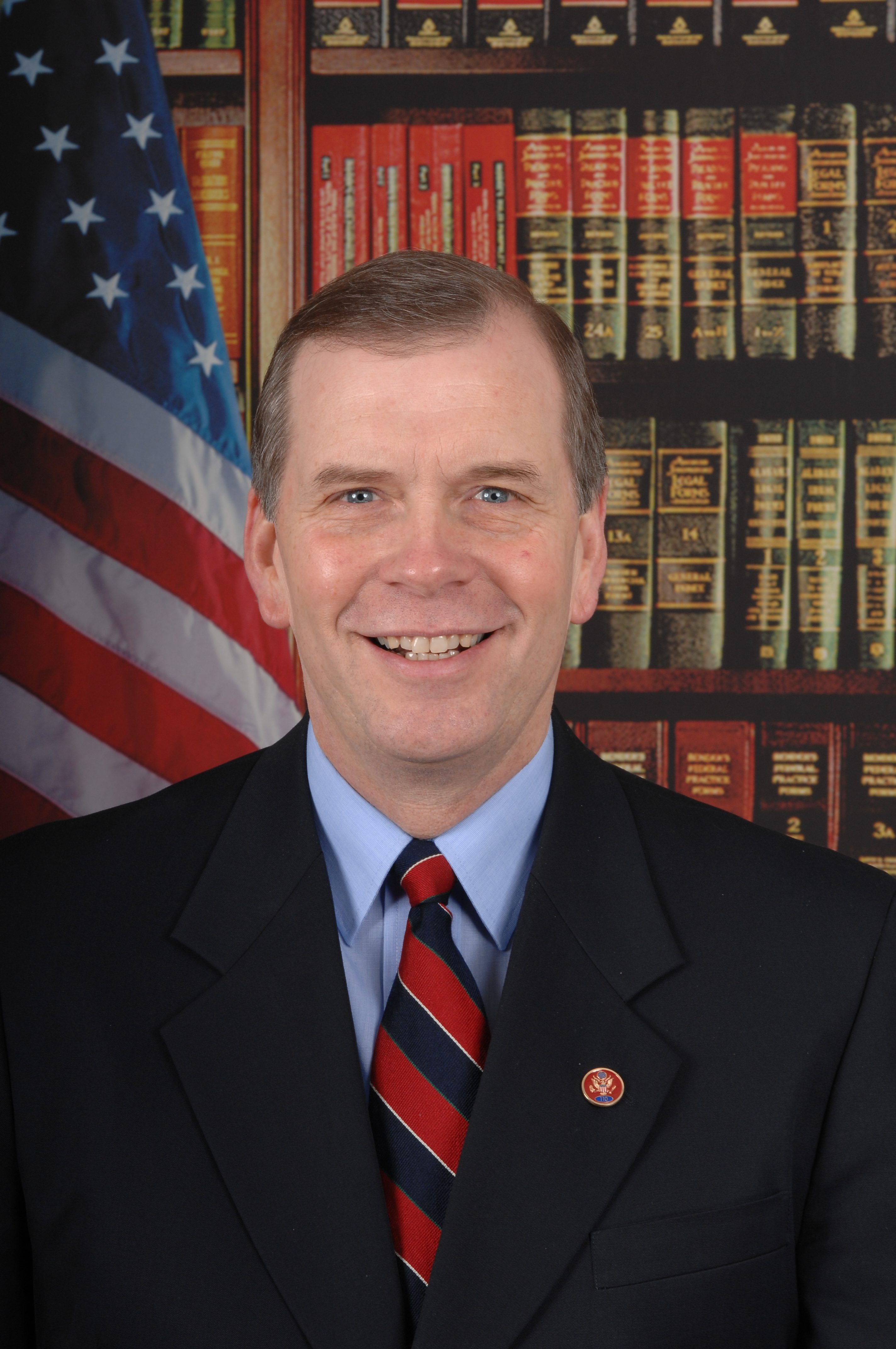 Tim Walberg, member of the United States House of Representatives.